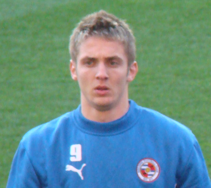 Kevin Doyle warming up against Aston Villa